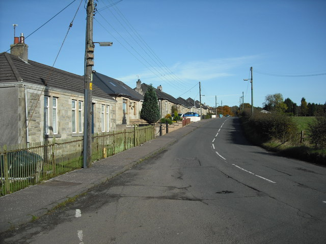 Cottages: Hartwood Beside Hartwood Home Farm